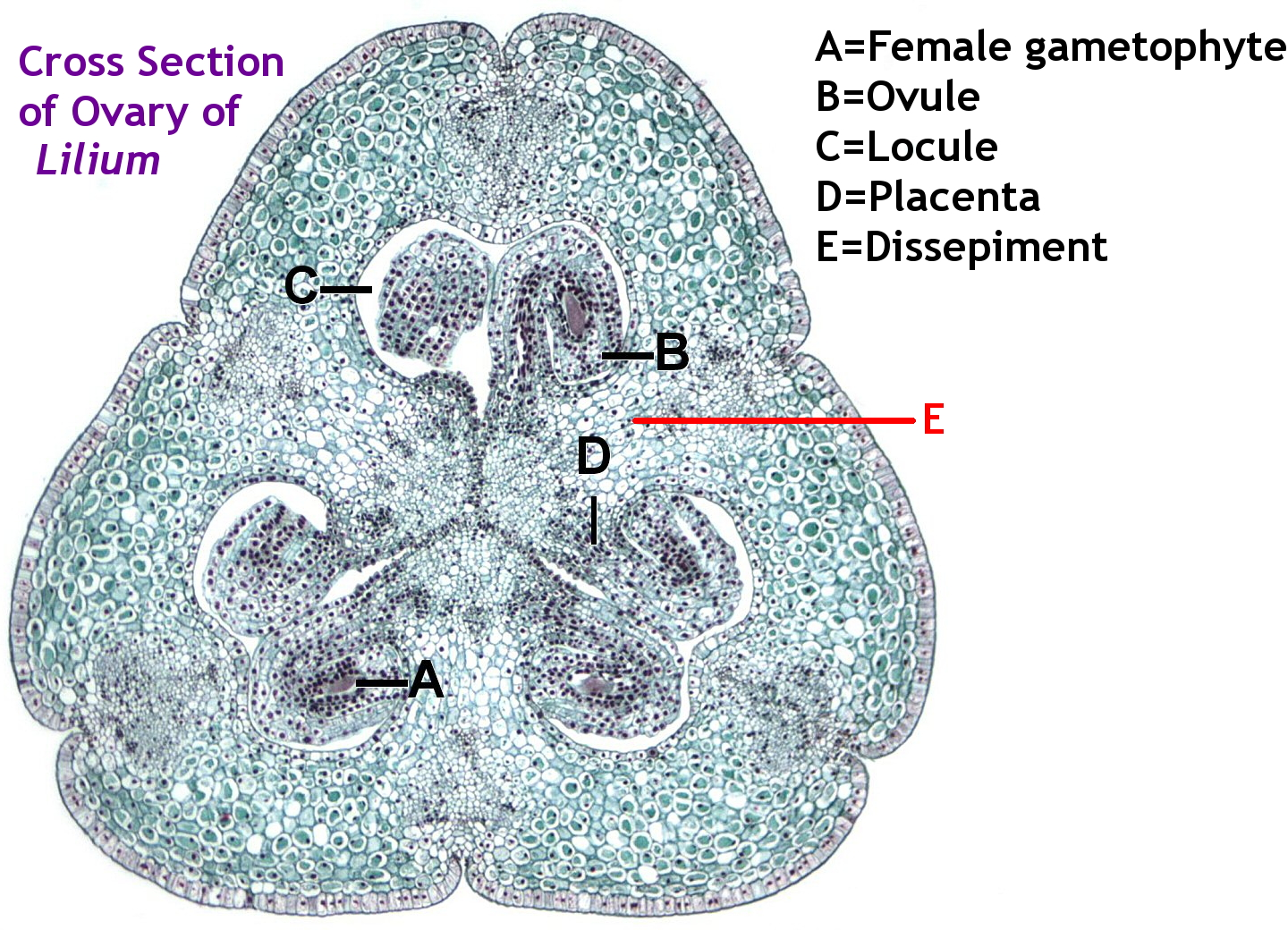 Cross section of Lilium ovary, showing i.a. A=Female gametophyte, B=Ovule, C=Locule, D=Placenta, E=Dissepiment. The label in red added to original contribution of File:Lilium ovary L.jpg provided by Jon Houseman and Matthew Ford